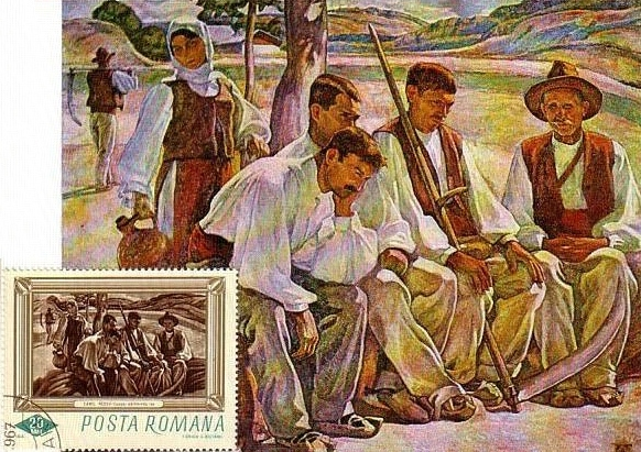 Resting Reapers by Camil Ressu